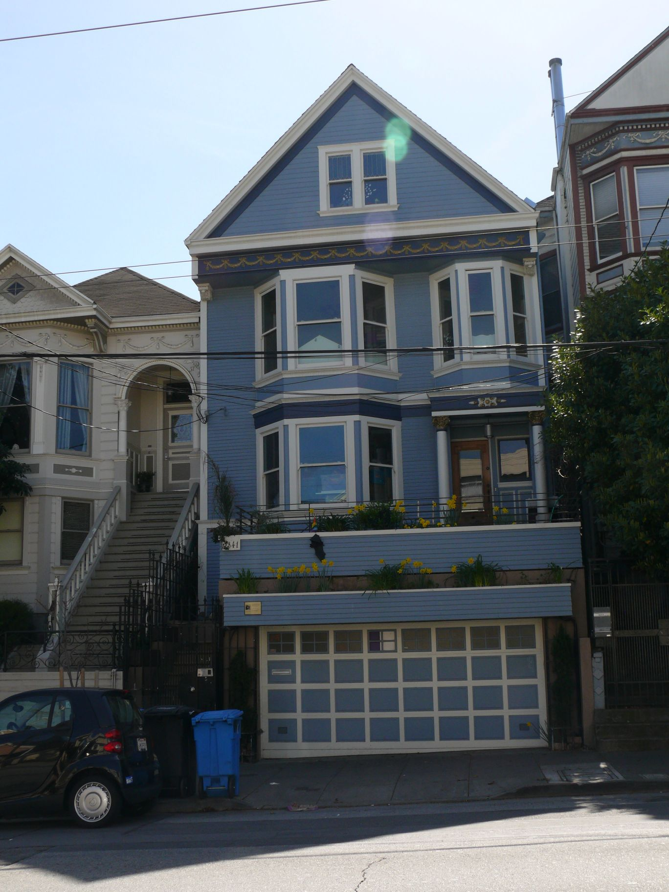 The blue house cited in the song by Maxime Le Forestier, at 3841 18th Street in San Francisco (California, USA).